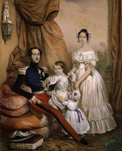 Ferdinand Philippe, duke of Orléans, his wife Helene of Mecklenburg-Schwerin and their two sons, Louis Philippe and Robert